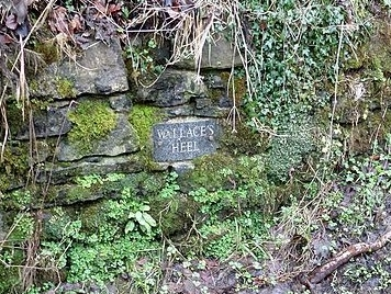 The plaque above Wallace's Heel Well, River Ayr. It lies close to the Holmston lime kiln. Ayr, Scotland.